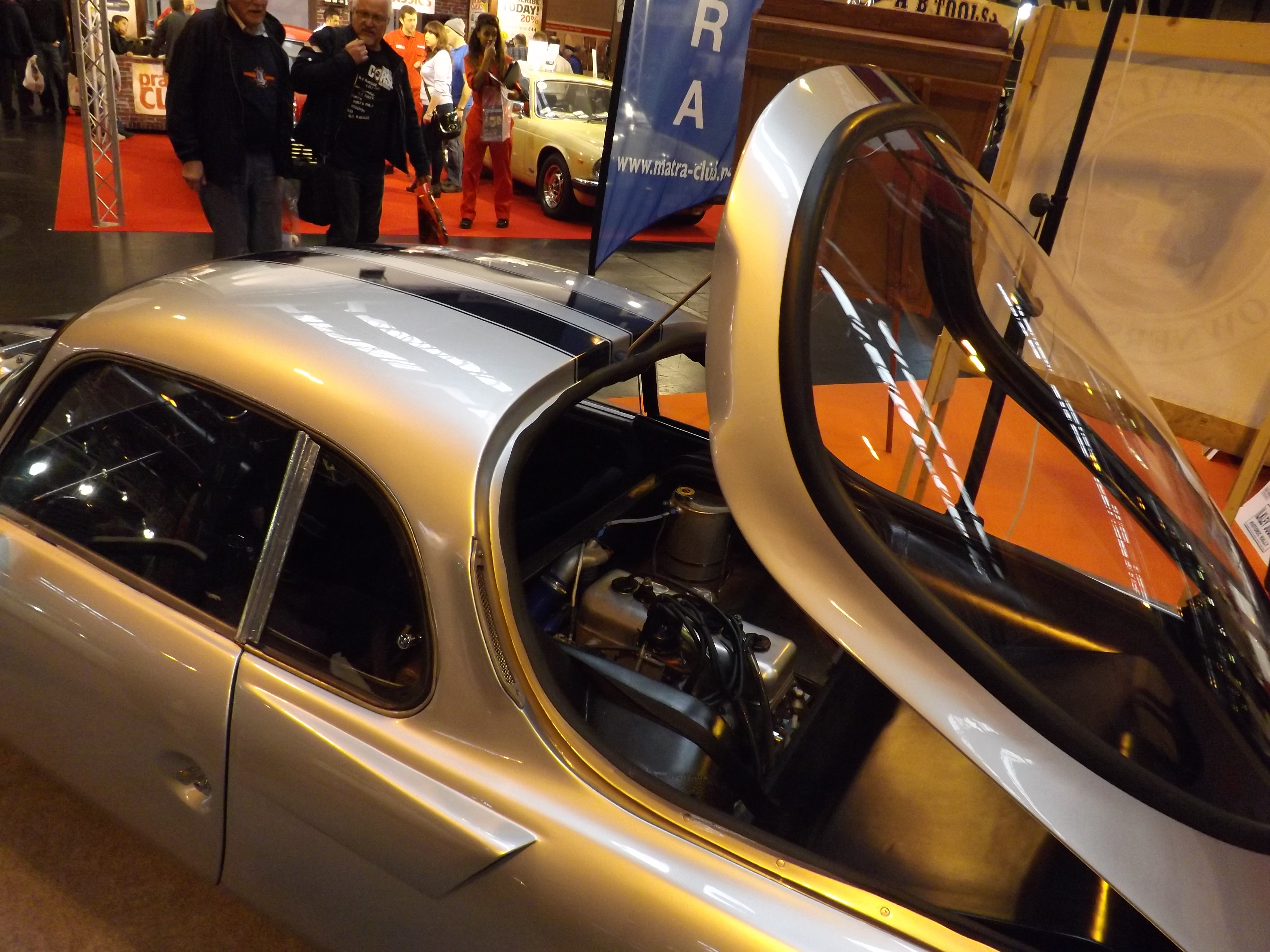 Very pretty mid-engined sports car, powered by 1108cc Renault R8 Gordini. Can't believe it's 50 years old.